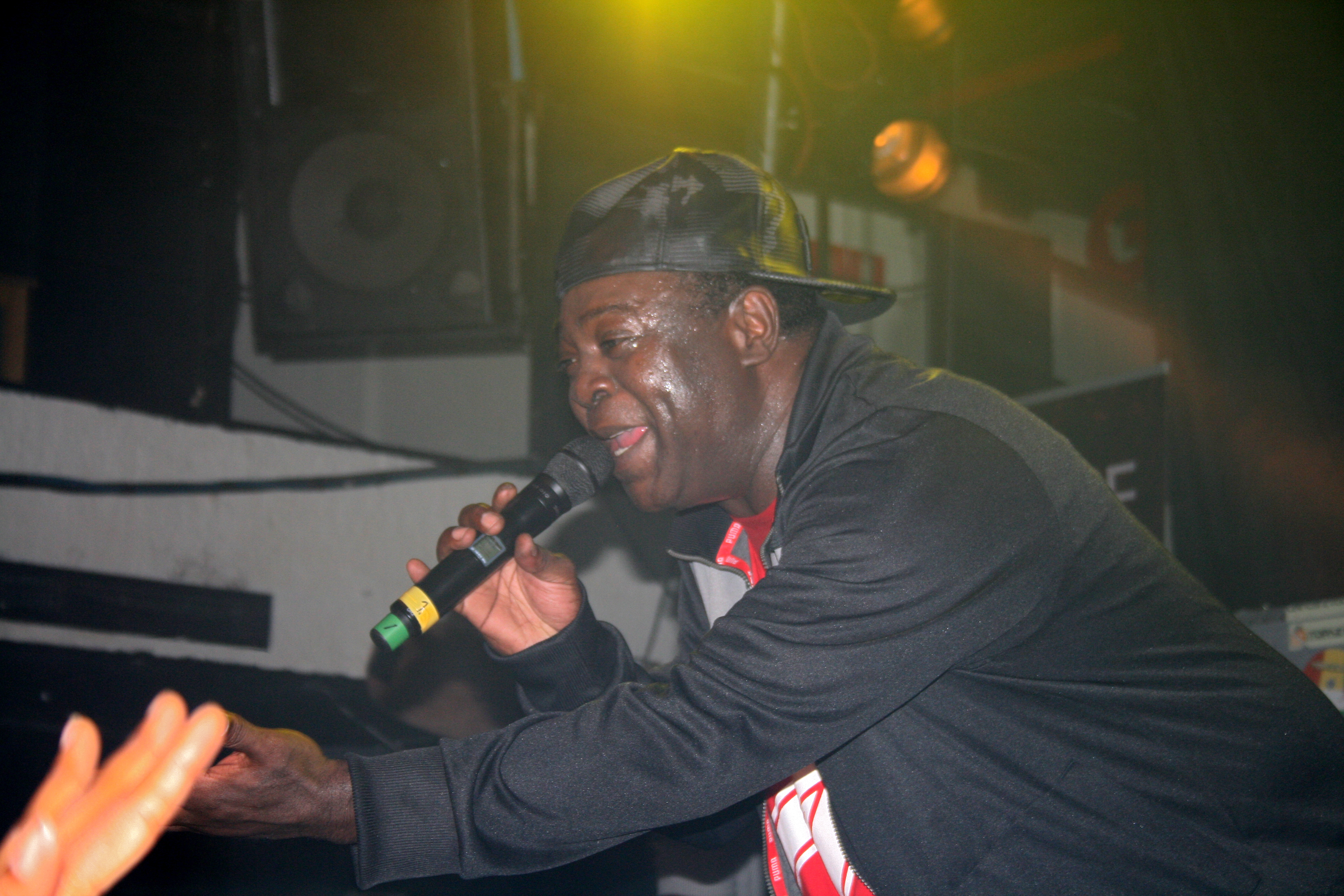 Chaka Demus & Pliers concert in Göta Källare, Stockholm 4th of august 2009, Stockholm, Sweden.